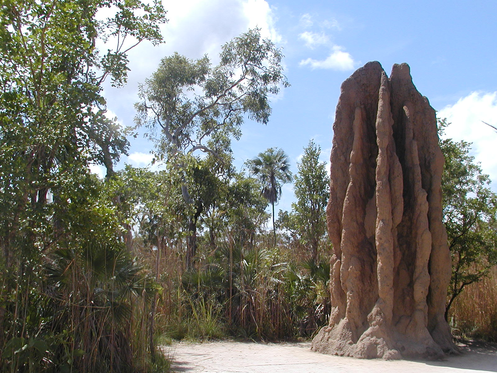 termite mound, Mandora, Northern Territory, Australia